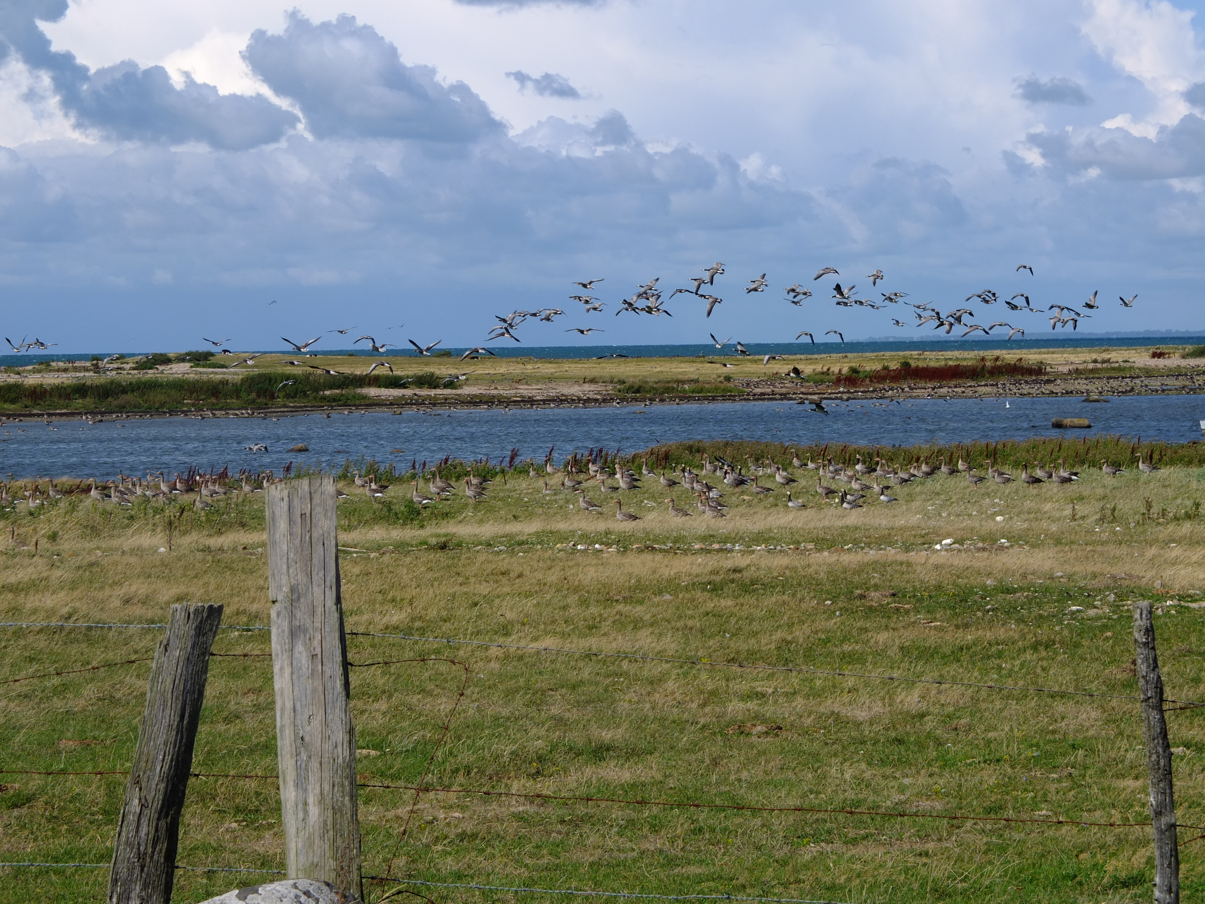 The nature reserve "Rönnen", Höganäs municipality, Sweden